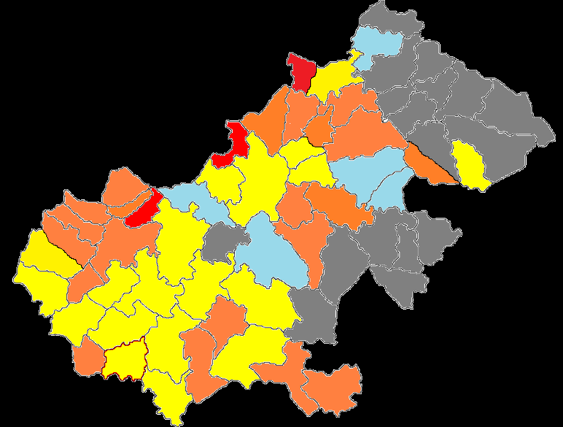 Hungarian minority in Satu Mare County (Romania), according to the 2011 census, by communes (red = hungarian majority over 80%, orange = hungarian majority between 50 - 70%, yellow = hungarian minority over 20%, blue = hungarian minority between 10 - 20%, grey = hungarian minority under 10%).